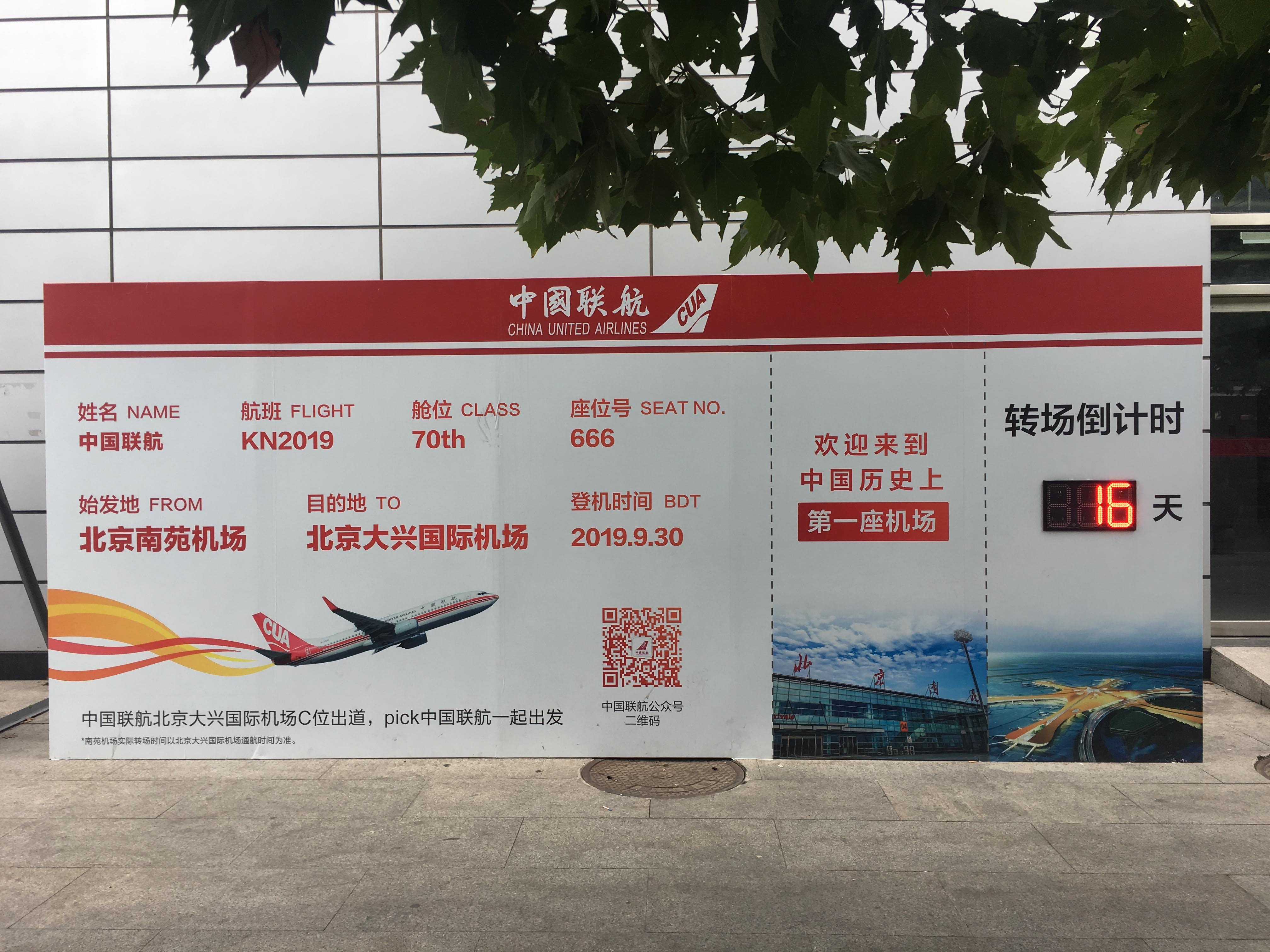 Beijing Nanyuan Airport a few days before Transitions boarding pass